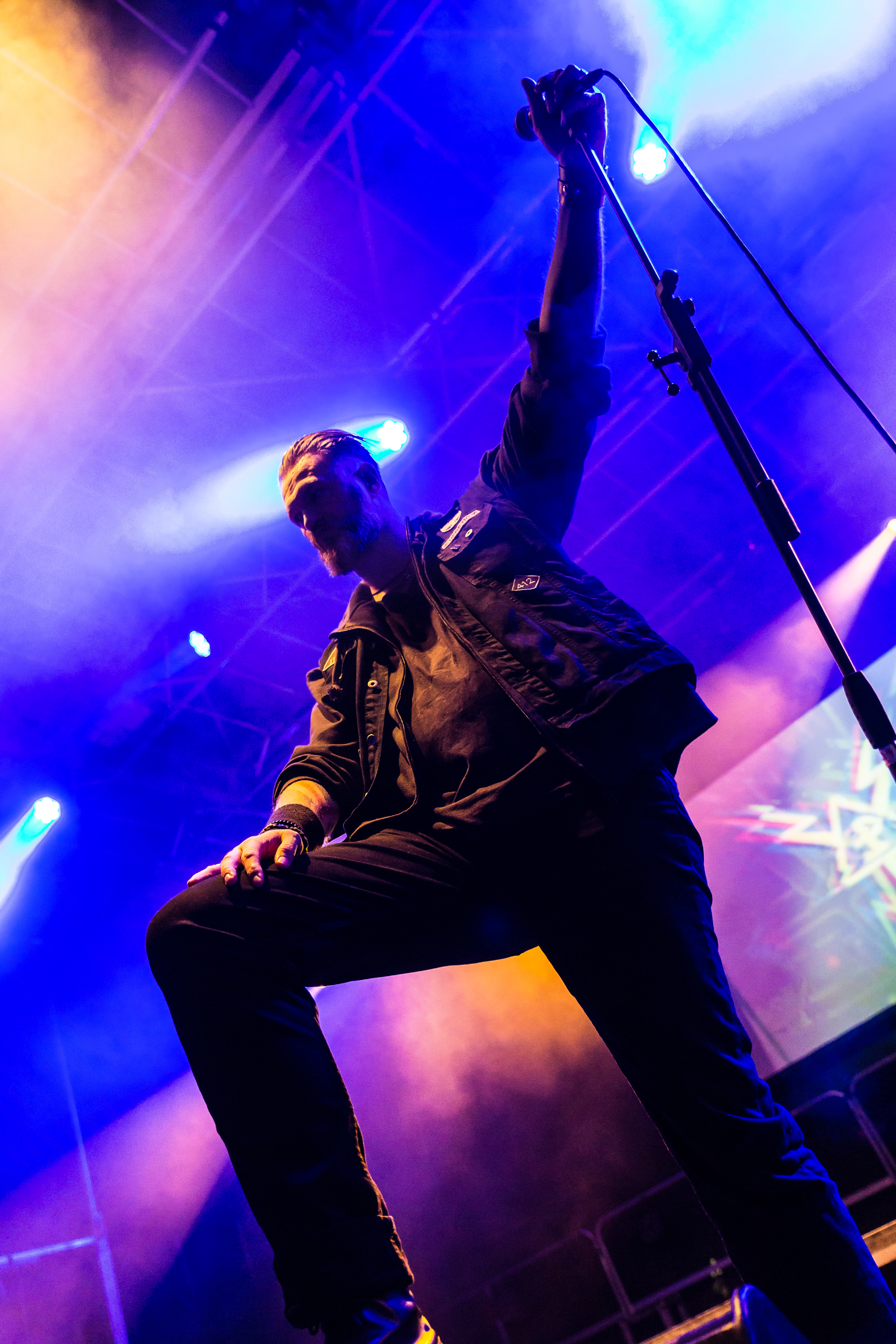 The Swedish electronic body music band Poupèe Fabrikk at the Nocturnal Culture Night 12 2017 in Deutzen/Germany.